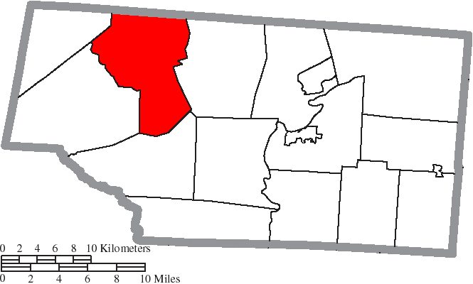 Map of the municipal and township boundaries of Pike County, Ohio, United States, as of the 2000 census, with the location of Benton Township highlighted. Township borders are shown only in unincorporated areas in order to differentiate incorporated and unincorporated areas more clearly.